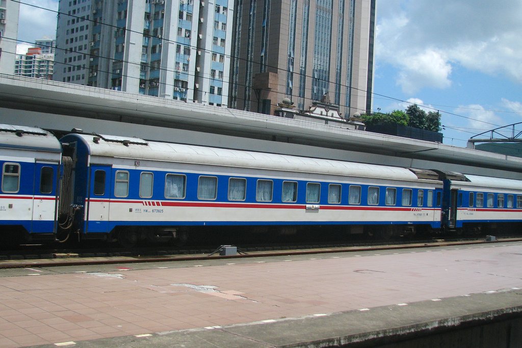 Train T108, from Shenzhen to Beijing West, preparing to depart in Shenzhen Railway Station. It is a YW25K railway carriage(hard sleeper).